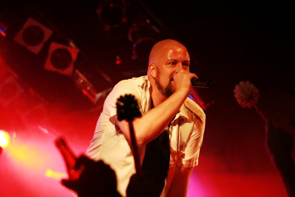 The Kristet Utseende rocked at Kulturbolaget (KB) in Malmö, Sweden